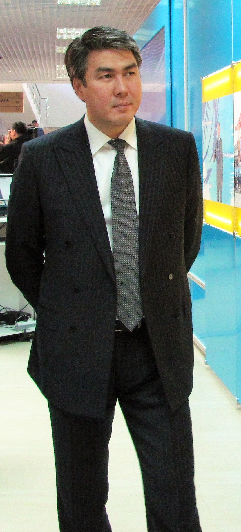 Asset Issekeshev